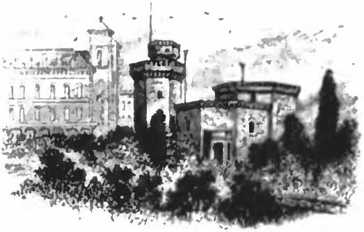 Drawing of the castellated structure on the grounds of the Hudson River estate of American stage actor Edwin Forrest. Purchased about 1850 and sold a few years later to a convent.